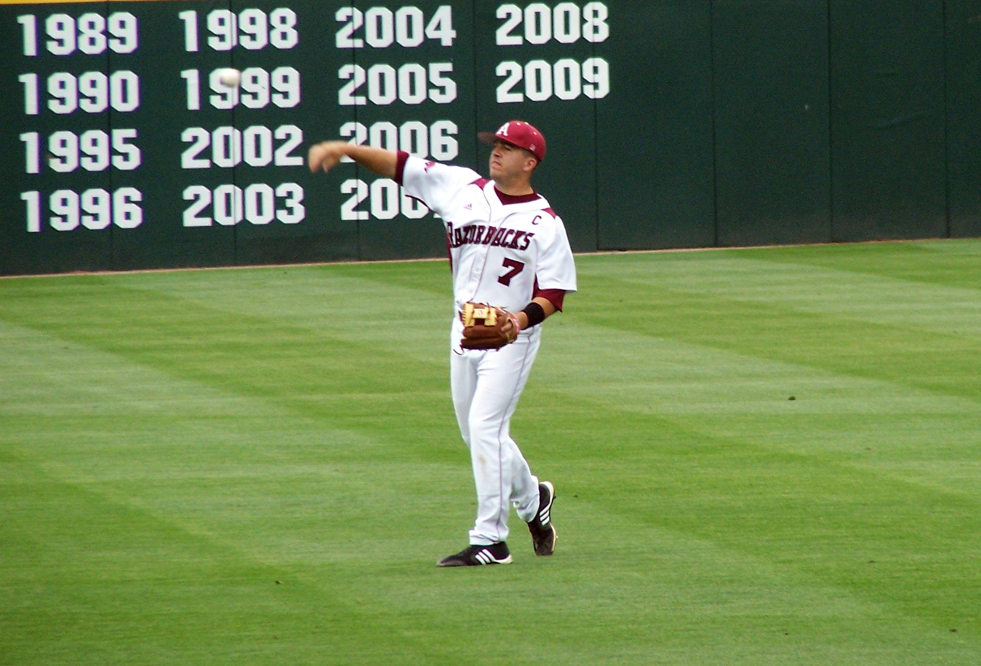 Zack Cox throws a baseball as a member of the 2010 Arkansas Razorbacks in Baum Stadium, Fayetteville, Arkansas, USA.